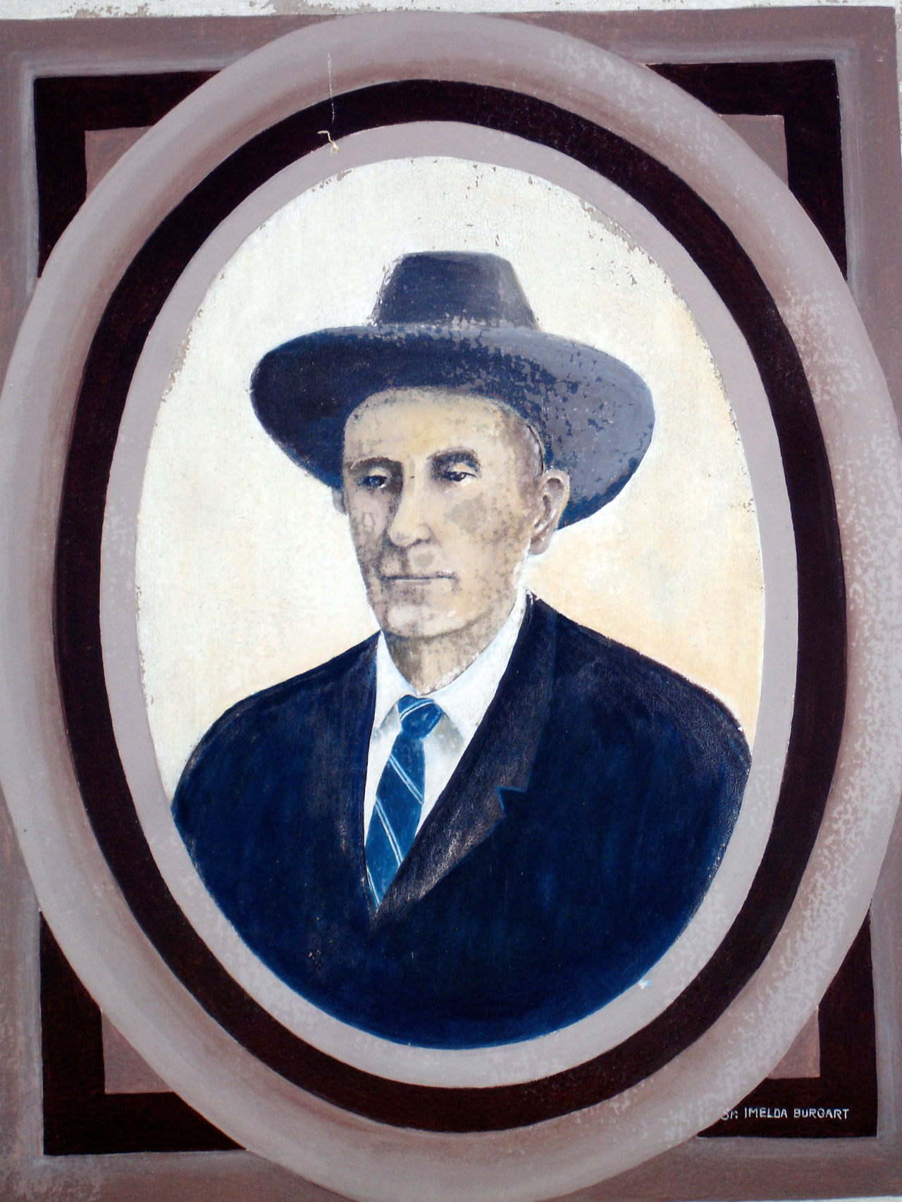 Portrait of William Theodore "Horseshoe" Smith (1845-1918). Originally from Kentucky, he came to Canada in 1868. He is famous for building North America's largest barn in 1914, west of the town of Leader, Saskatchewan. This portrait is from a sign at the Smith Barn site.